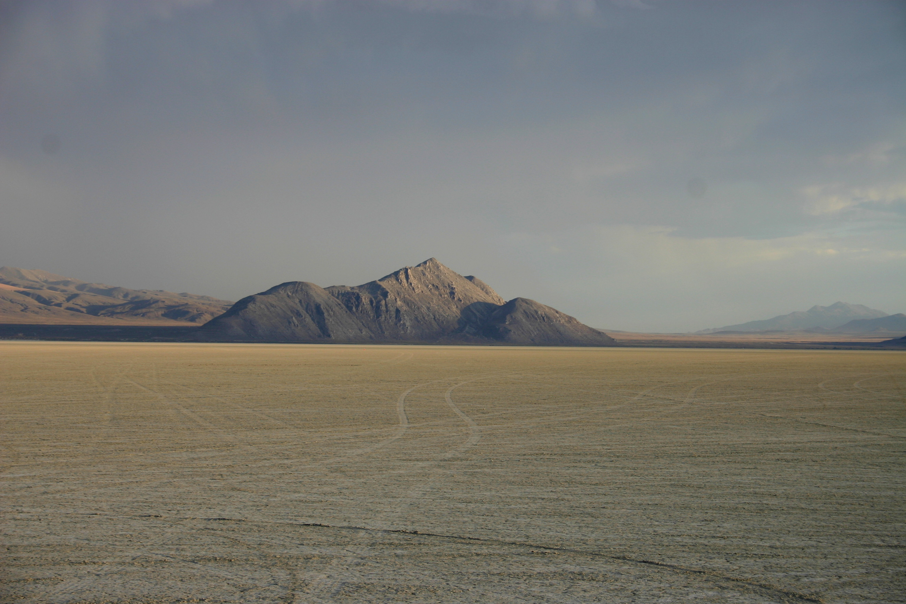 Old Razorback Mountain at the Black Rock Desert